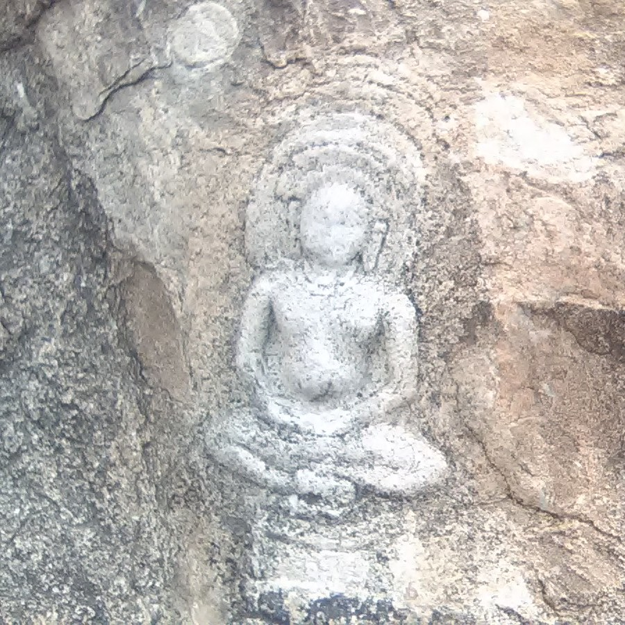 ஒசூர் வெங்கடரமண சாமி குன்றின் படிக்கட்டை ஒட்டியுள்ள சமண தீர்தரங்கர் சிற்பம்